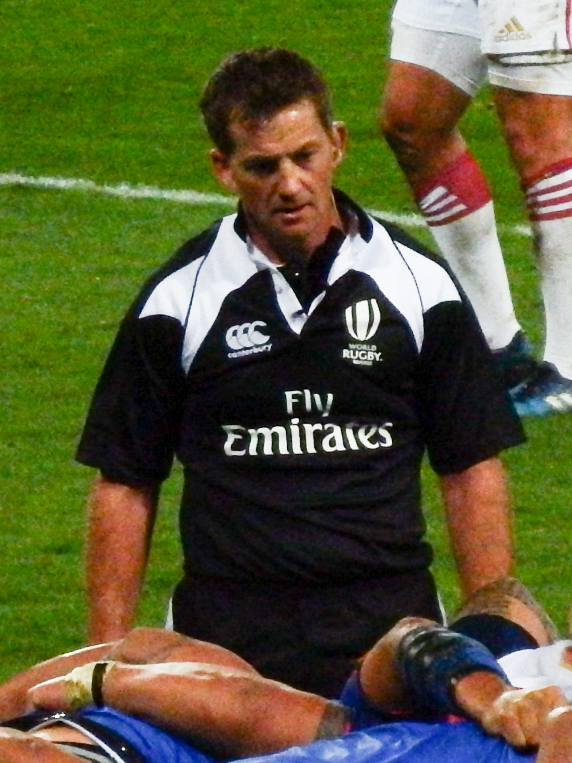 rugby union friendly match — 12 November 2016, Stadium Municipal. Match between: France national rugby union team — Samoa national rugby union team